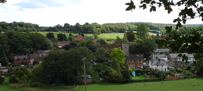 Newnham village in Kent. Picture taken from Hilly Field August 2006 by Alistair Clinton